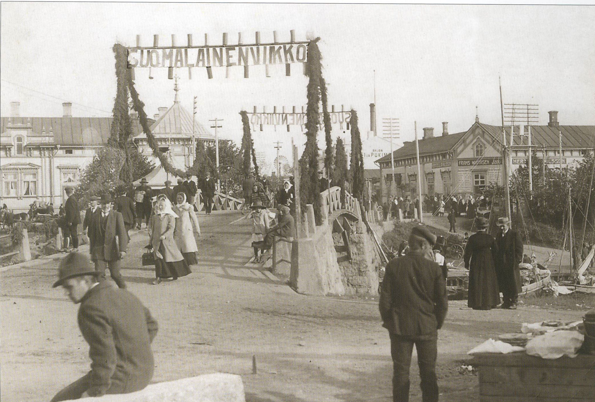 Suomalainen viikko in Salo 1913